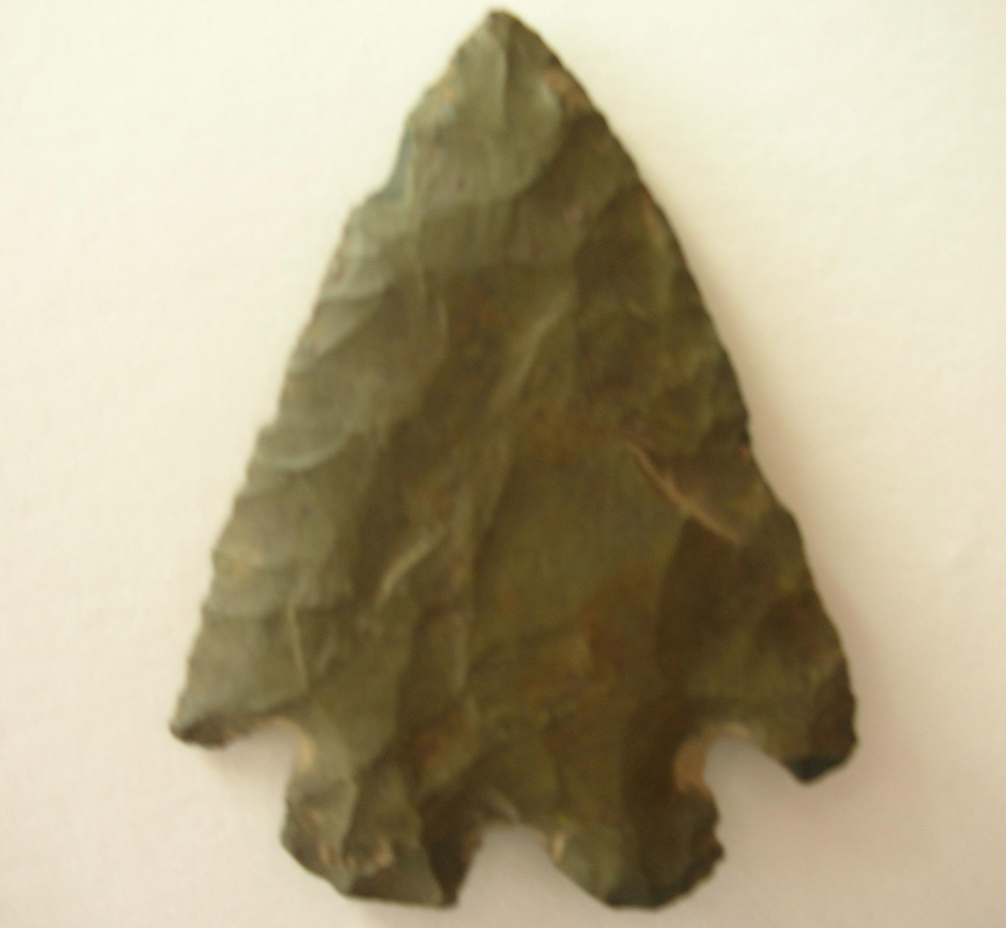 Projectile Point found near Wappingers Falls, NY, 1963 Lecroy Point, 9000-7000 Bp Early Archaic Period